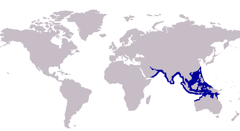 Approximate distribution of the herring scad, Alepes vari based on sources given in en wikipedia article. Map base from